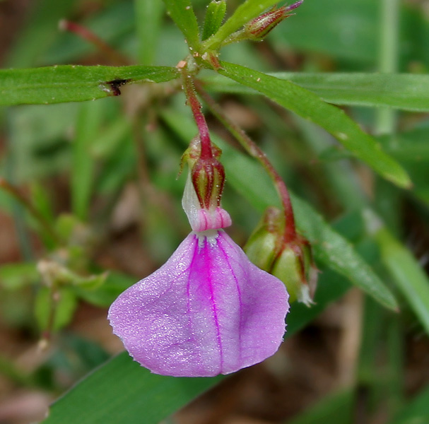 Spade Flower or Rathnapurusha Hybanthus enneaspermus syn. Ionidium suffruticosum at Talakona forest, in Chittoor District of Andhra Pradesh, India.